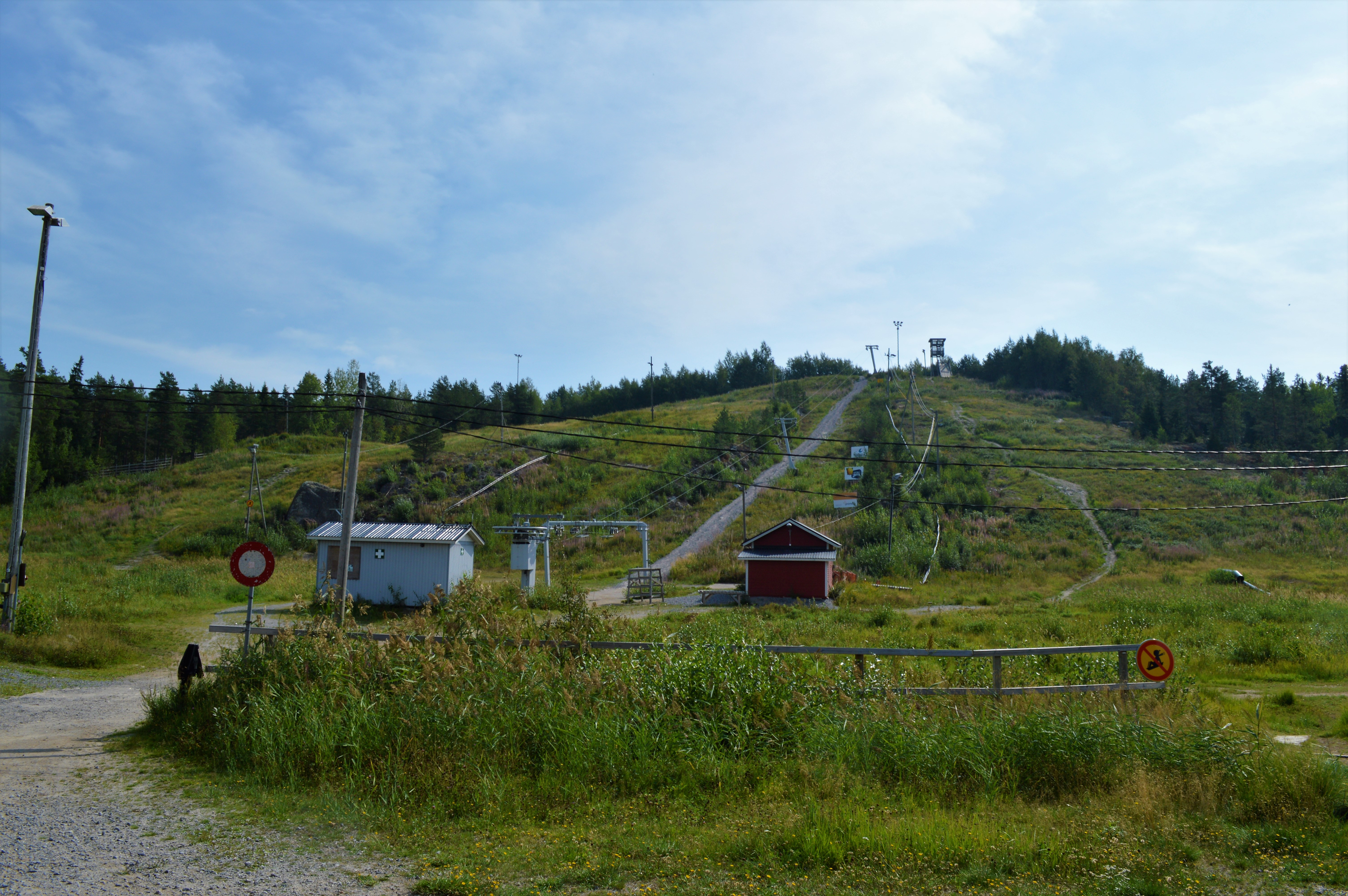 Öjberget ski resort in summer